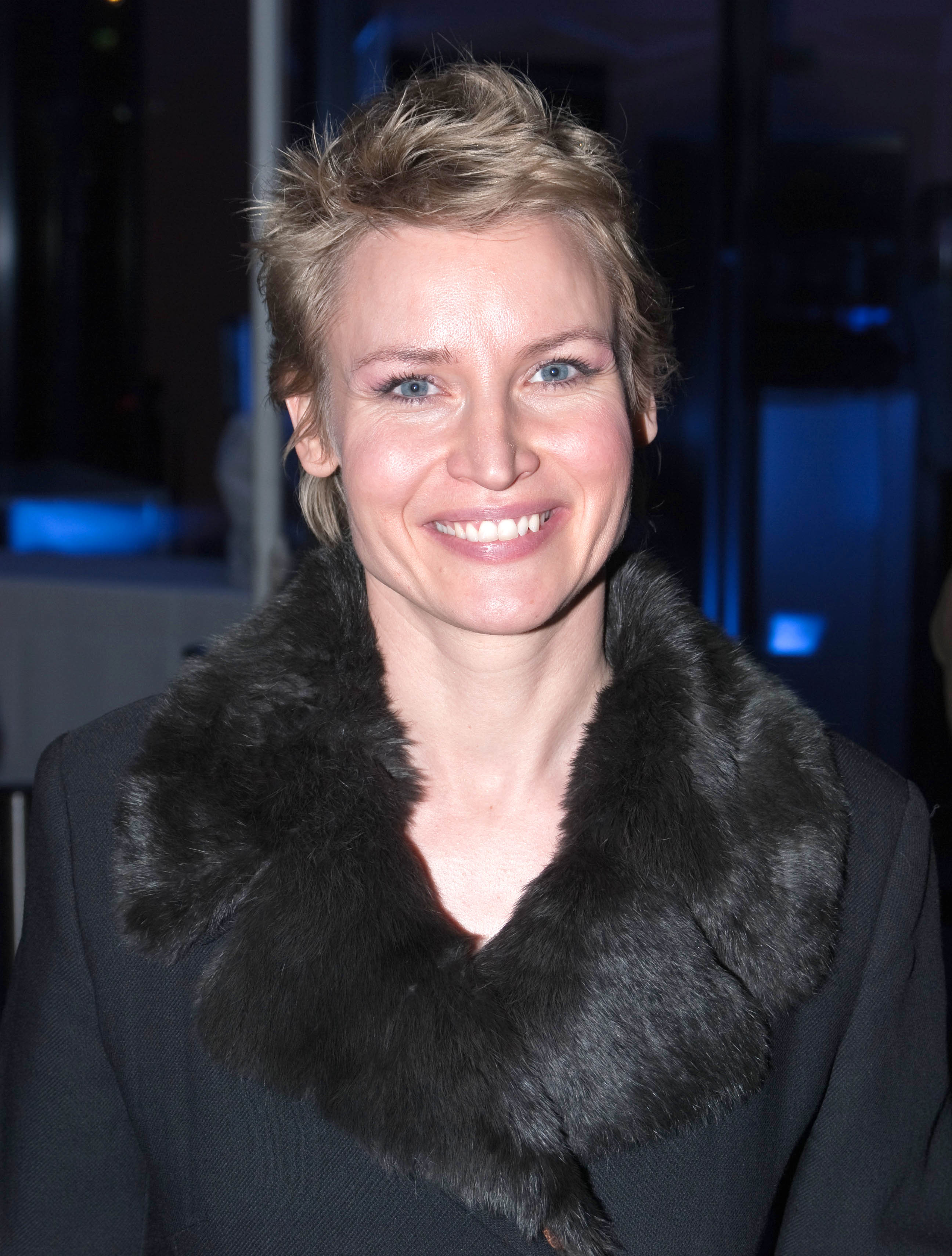 German TV presentor Eve-Maren Büchner at the 59th Berlin International Film Festival